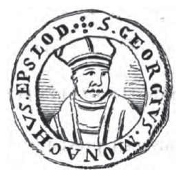 Seal of the Occitan Saint George of Lodeva